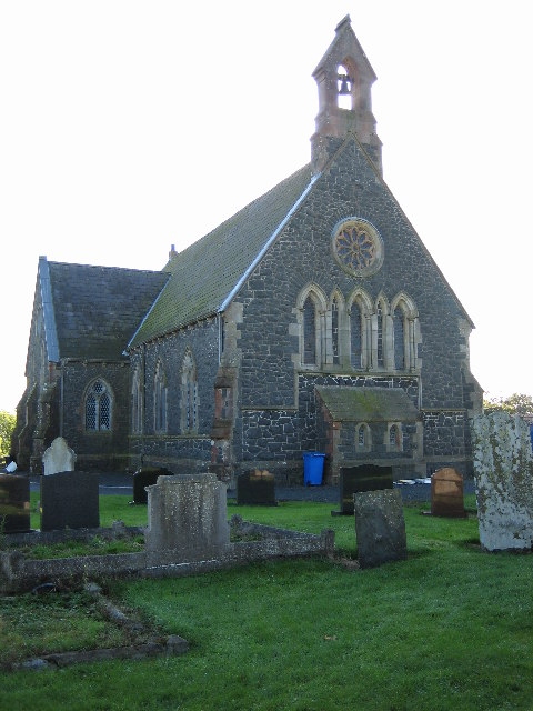 Church of the Ascension, Annahilt. Formerly dedicated to St Molibba, who founded a Church on this site in the eighth century (rebuilt in 1422 and again in 1741). The present Church dates from 1856, and is built of the usual local basalt.